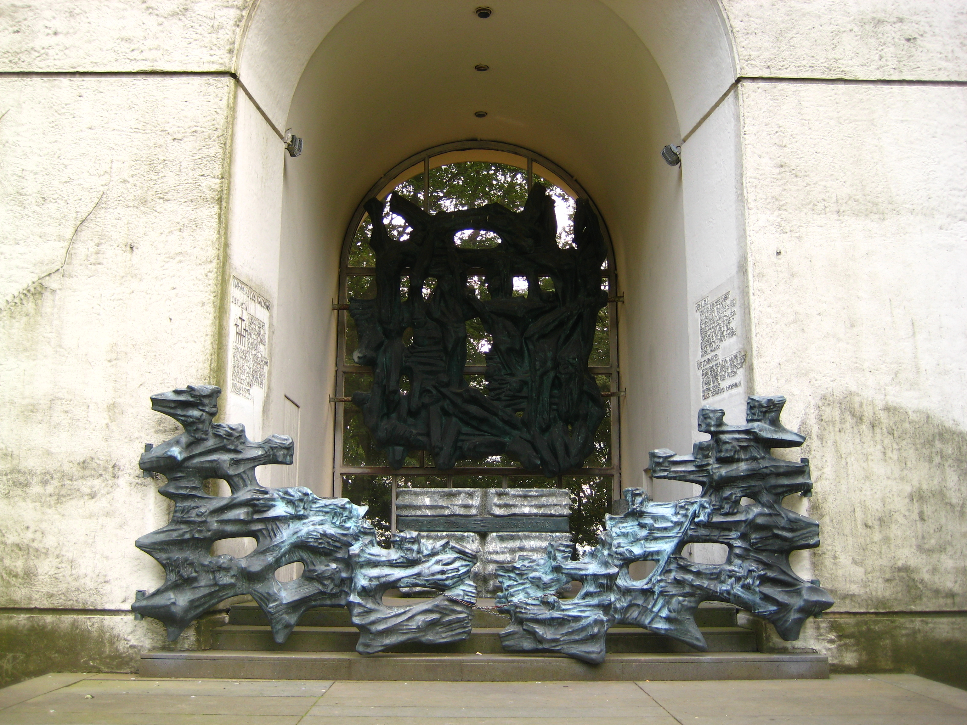 German french peace memorial (lower part) on Schaumberg, Saarland, Germany